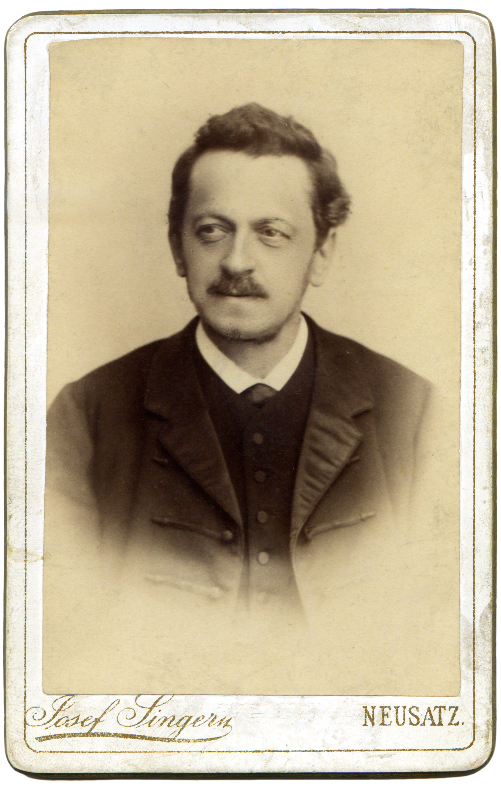 Antonije Hadžić (1831-1916), director and manager of Serbian National Theatre, editor of journal "Pozorište" (The Theatre), Photo Studio by Josif Singer, Novi Sad, eighteenth years of the 19th century Srpski (latinica): Antonije Hadžić (1831-1916), reditelj i upravnik Srpskog narodnog pozorišta, urednik časopisa "Pozorište", Atelje Josifa Singera, Novi Sad, 80-ih godina 19. veka Српски (ћирилица): Антоније Хаџић (1831–1916), редитељ и управник СНП-а, оснивач и уредник листа "Позориште", средина 80-их година 19. века